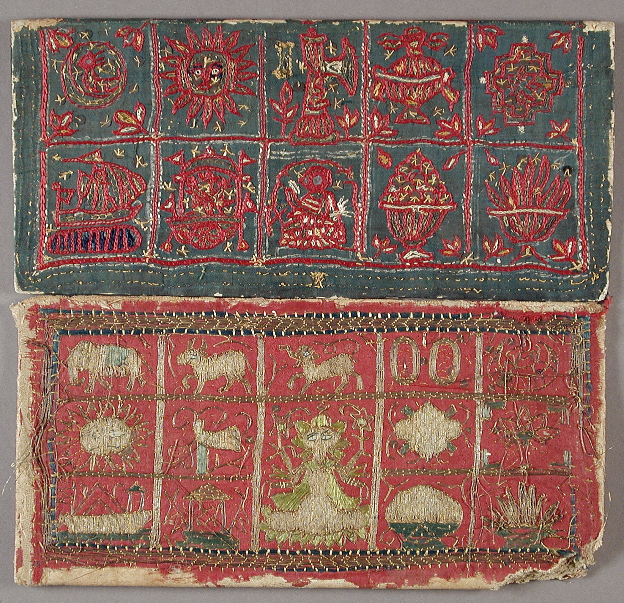 India, Gujarat, 1520, covers late 19th-early 20th century Manuscripts Folios: Ink, opaque watercolor, and gold on paper; Covers: Cotton warp and silk weft (mashru) Sheet: 4 1/2 x 11 in. (11.43 x 27.94 cm) each; Image: 4 1/2 x 3 in. (11.43 x 7.62 cm) each; Cover: 4 3/4 x 10 3/4 in. (12.07 x 27.31 cm) each From the Nasli and Alice Heeramaneck Collection, Museum Associates Purchase (M.72.53.13) South and Southeast Asian Art